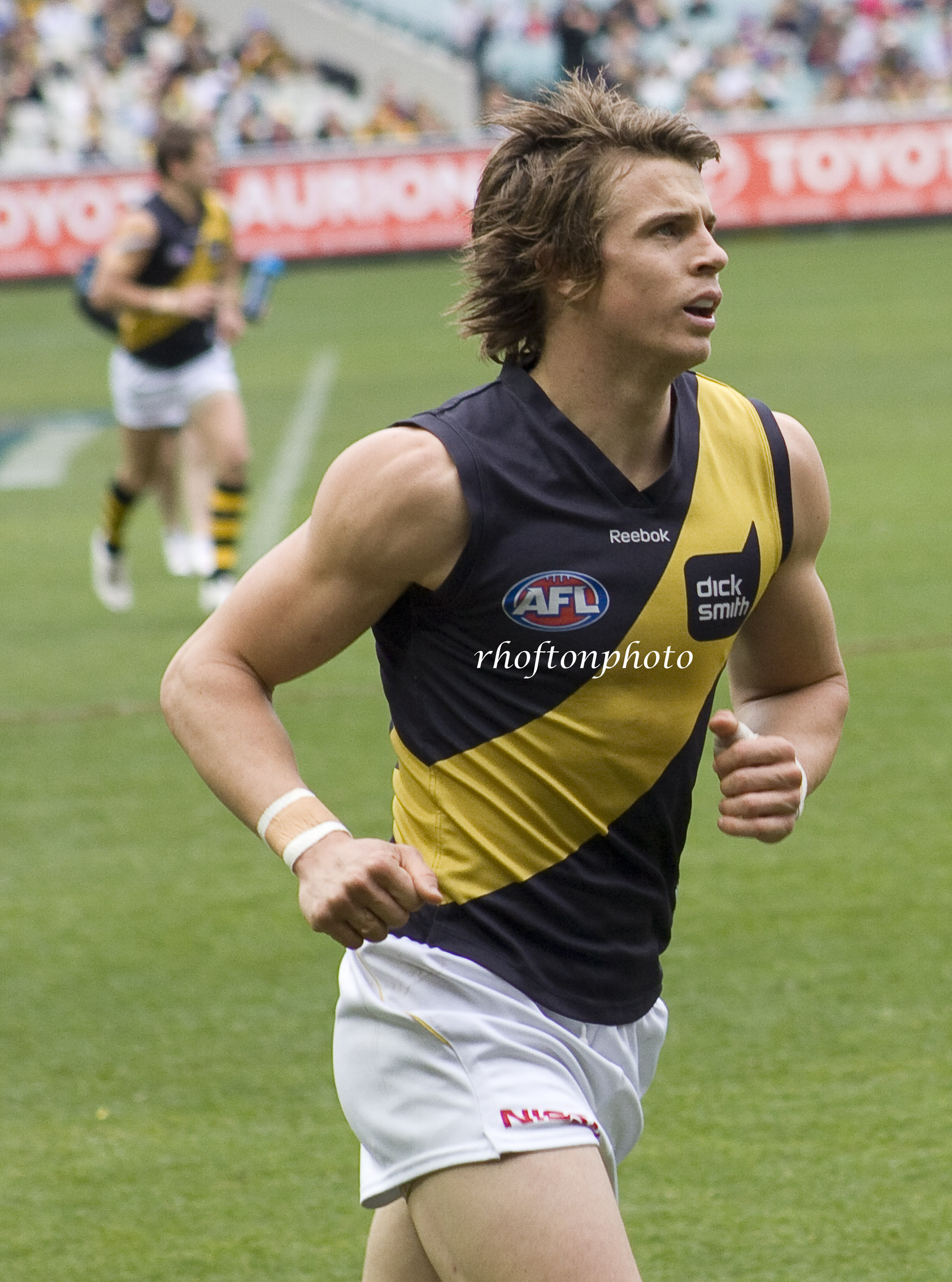 richmond vs melbourne august 2nd 2009